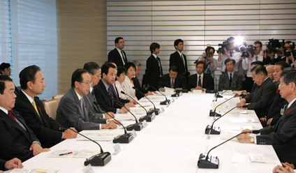 Yasuo Fukuda, Prime Minister, attended a meeting of the Global Warming Prevention Headquarters with Akira Amari, Minister of Economy, Trade and Industry, Ichirō Kamoshita, Minister of the Environment, and Nobutaka Machimura, Chief Cabinet Secretary, at the Prime Minister's Official Residence in Chiyoda Ward, Tōkyō Metropolis on October 2, 2007.